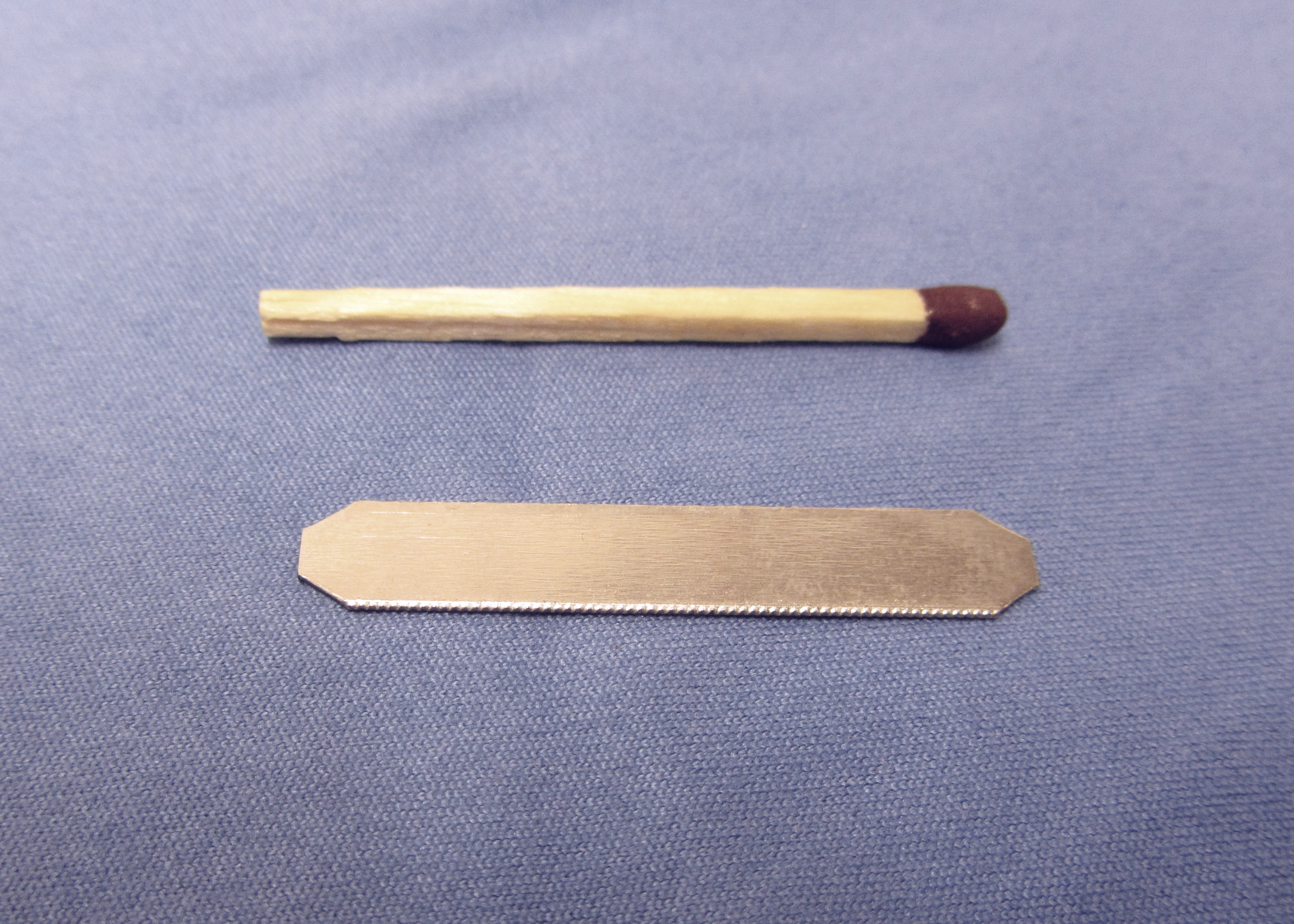 File for opening of ampoules in comparison to a match